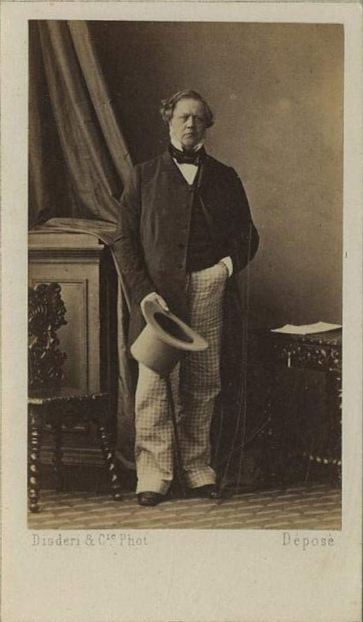 Anne-Édouard-Louis-Joseph de Montmorency-Beaumont-Luxembourg (1802-1878)